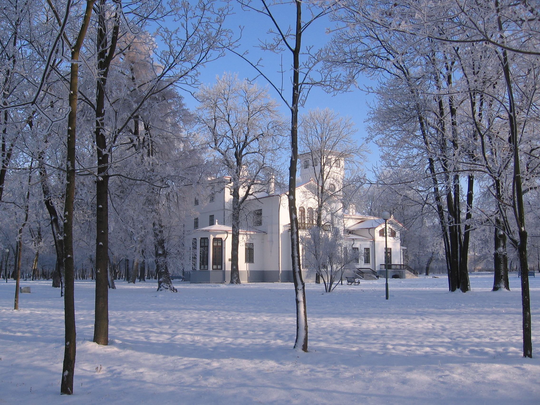 Беларуская (тарашкевіца): Пружанскі палацык. Зіма. This is a photo of Belarusian heritage monument. Reference number: 112Г000585 ( WLM)